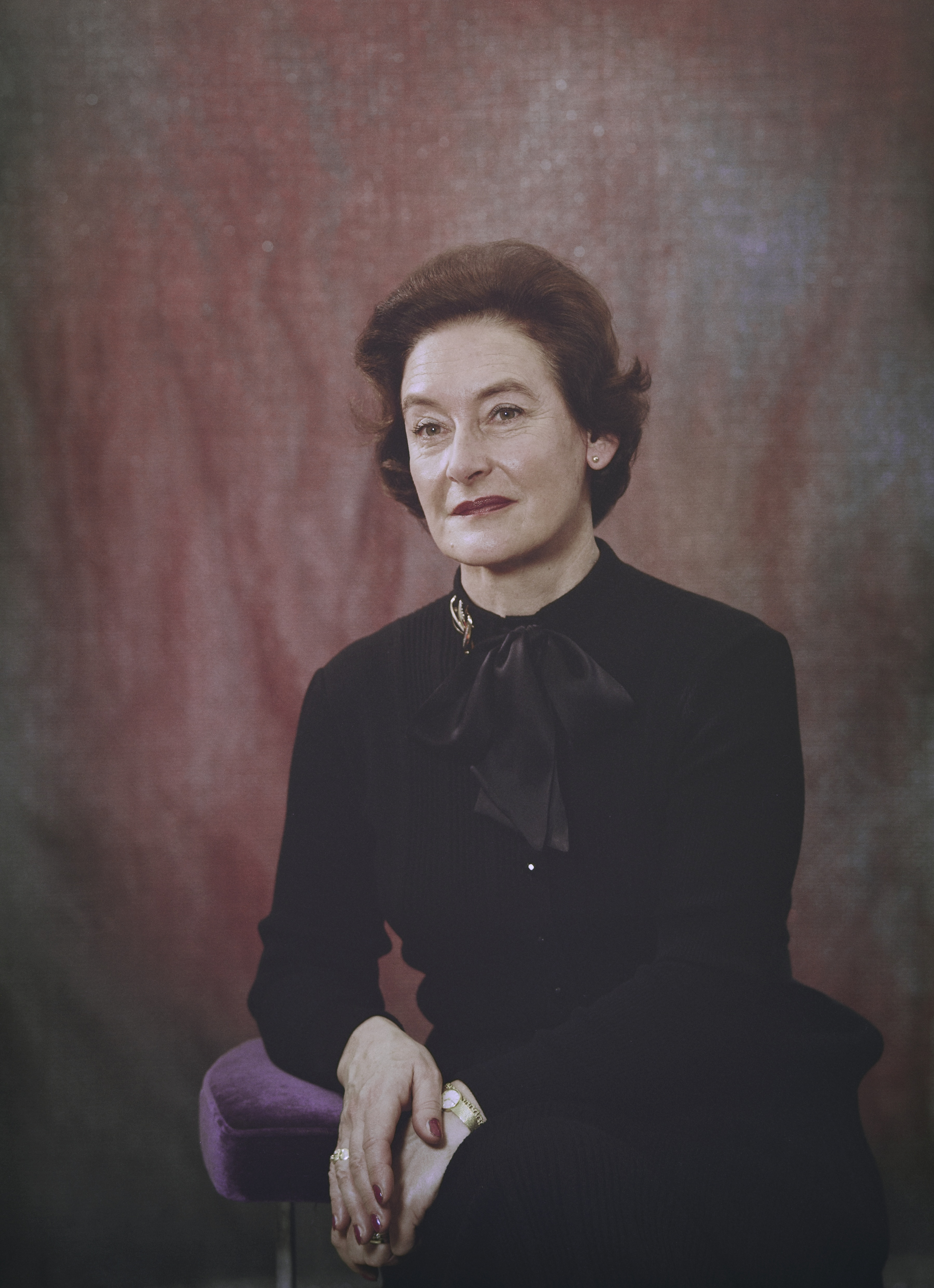 Photograph of the Finnish writer Anita Hallama (1925–2008).